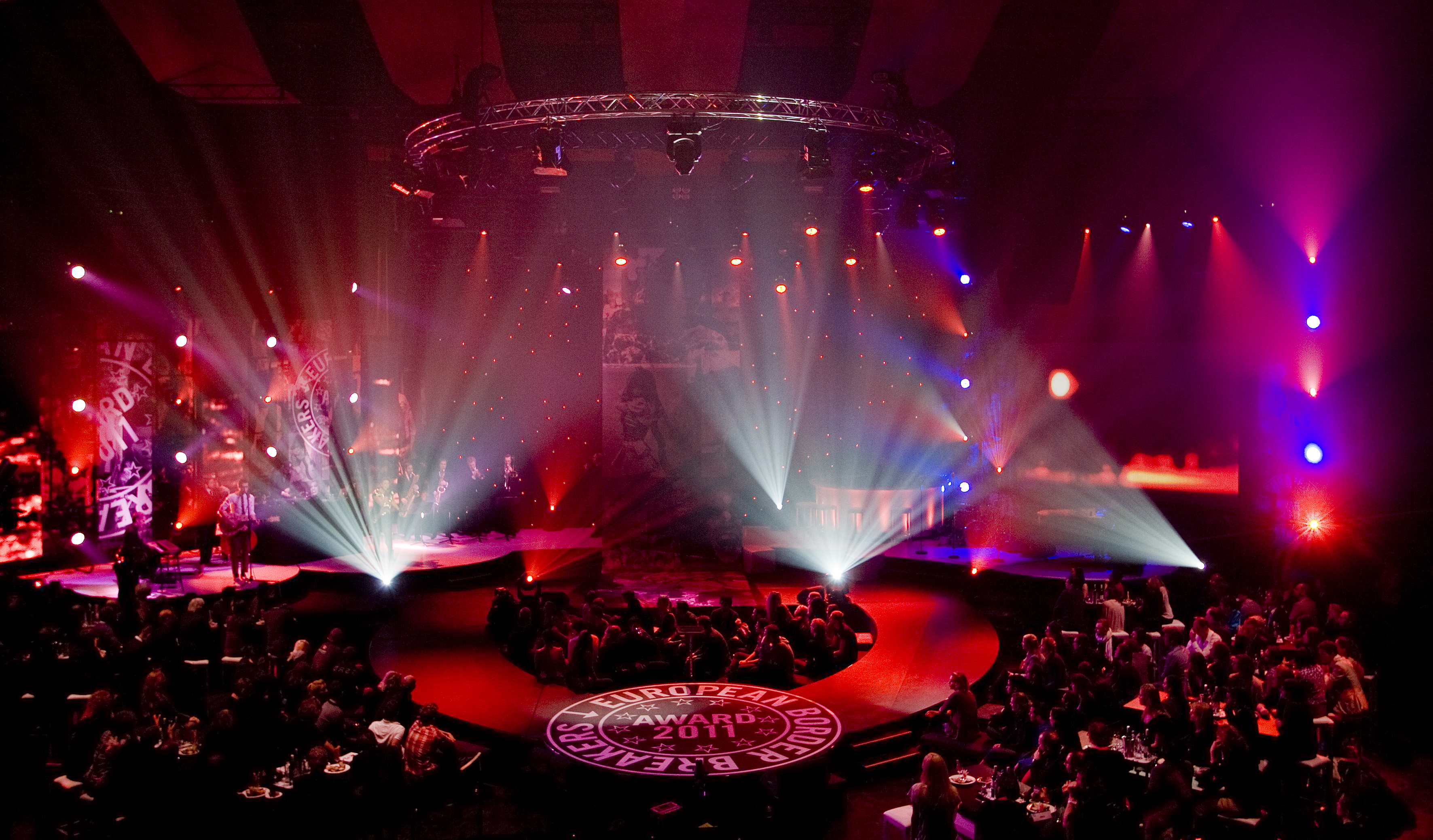 European Border Breakers Awards 2011 show - by René Keijzer